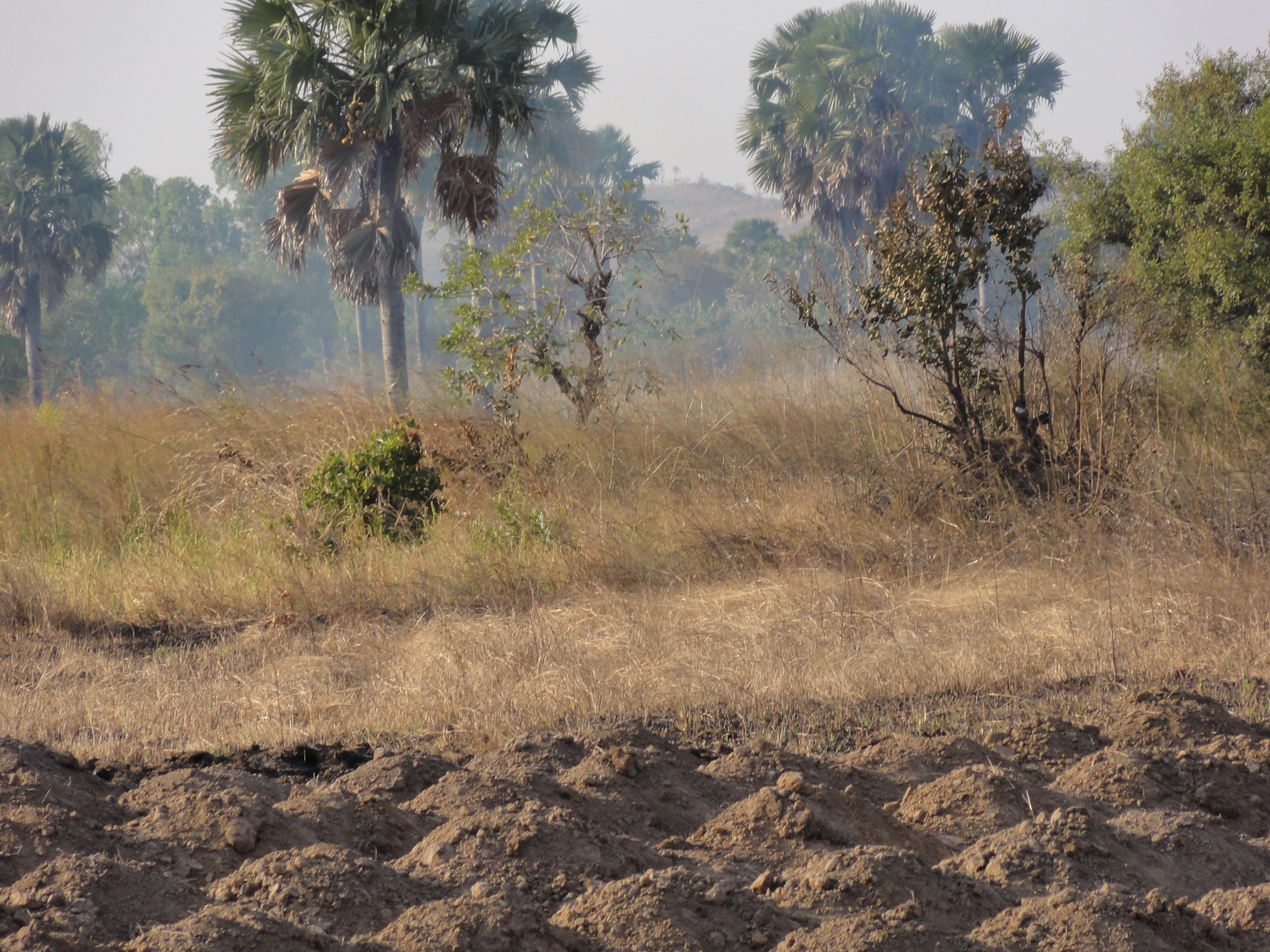 Rice cultivation in Benin